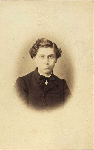 Danish industrialist, director of Bing & Grøndahl, co-founder of the Society for the Beautification of Copenhagen, Ludvig Bing (1847-1885)